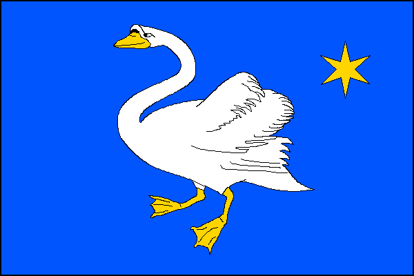 Municipal flag of Broumov town, Náchod District, Czech Republic.